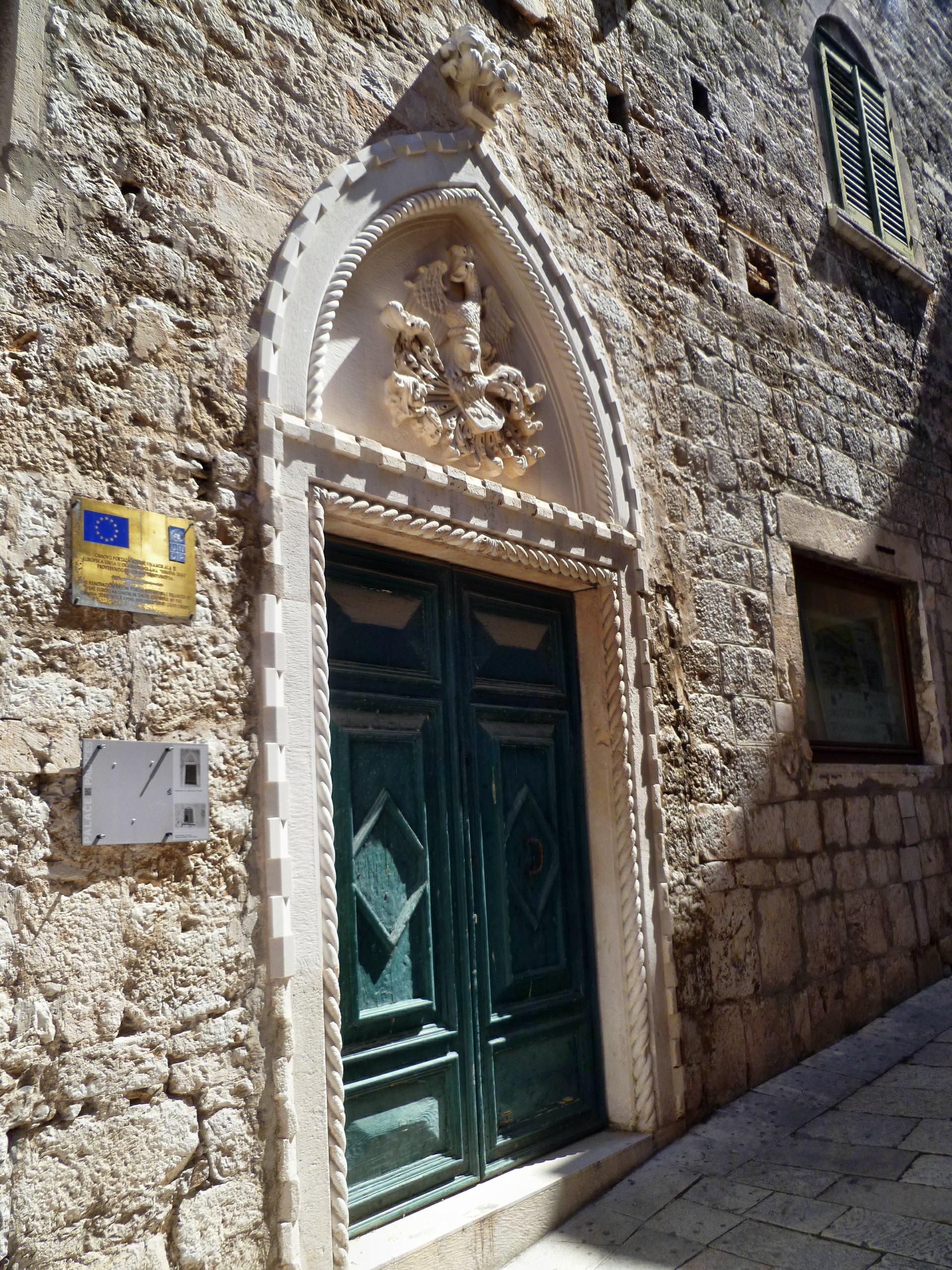 The gothic portal Rossini (15th century); Šibenik, Croatia